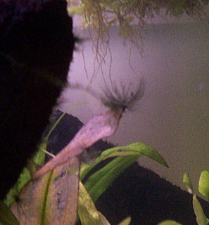 Audouinella growing on wood and Sagittaria leaves